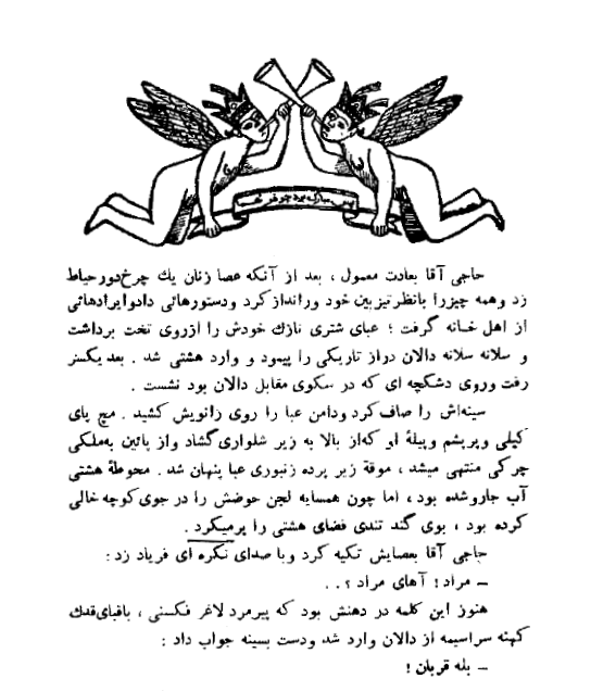 First page of Haji Agha, with a drawing by Sadegh Hedayat